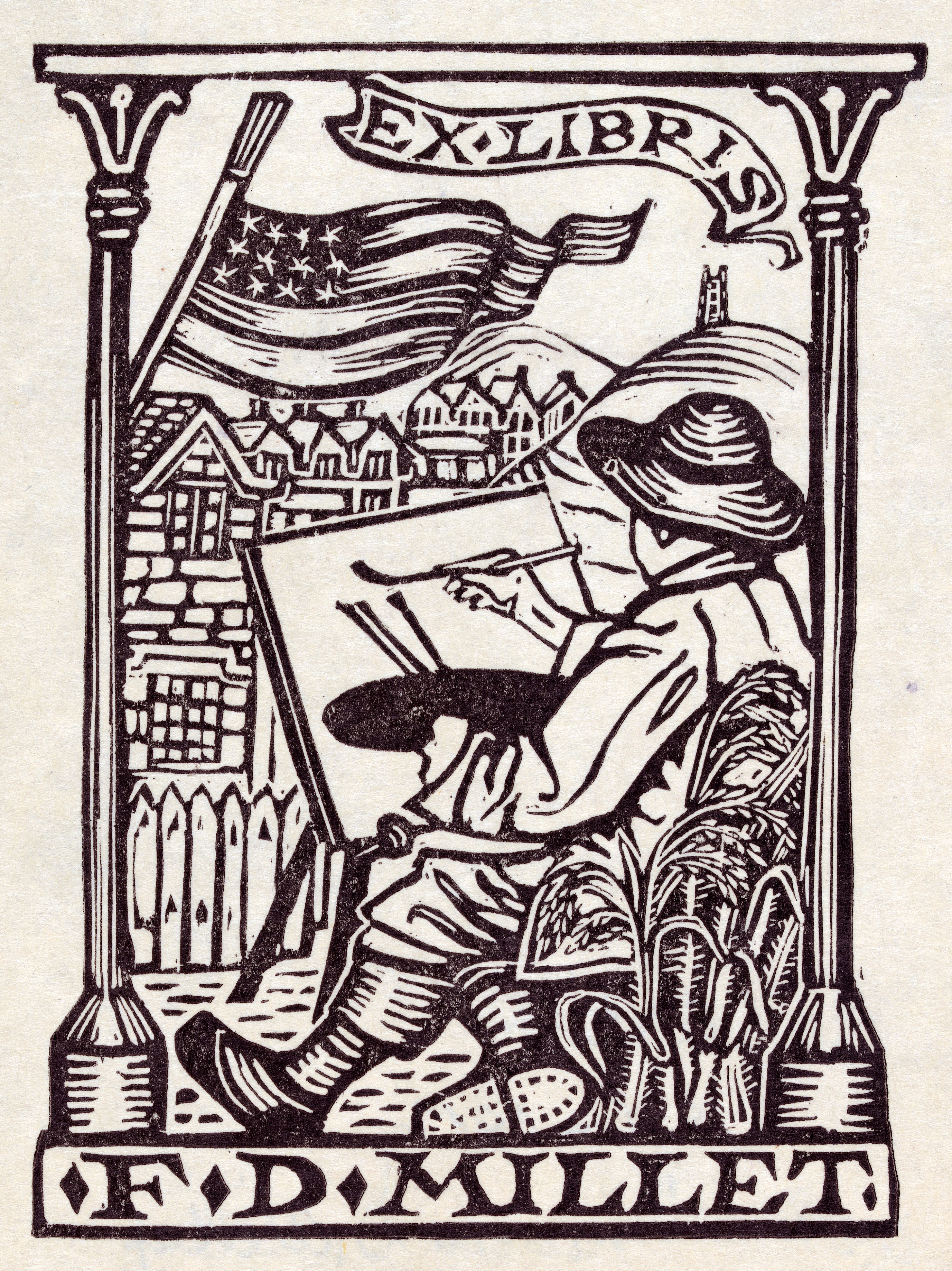 Bookplate of American painter Francis Davis Millet (1846-1912)